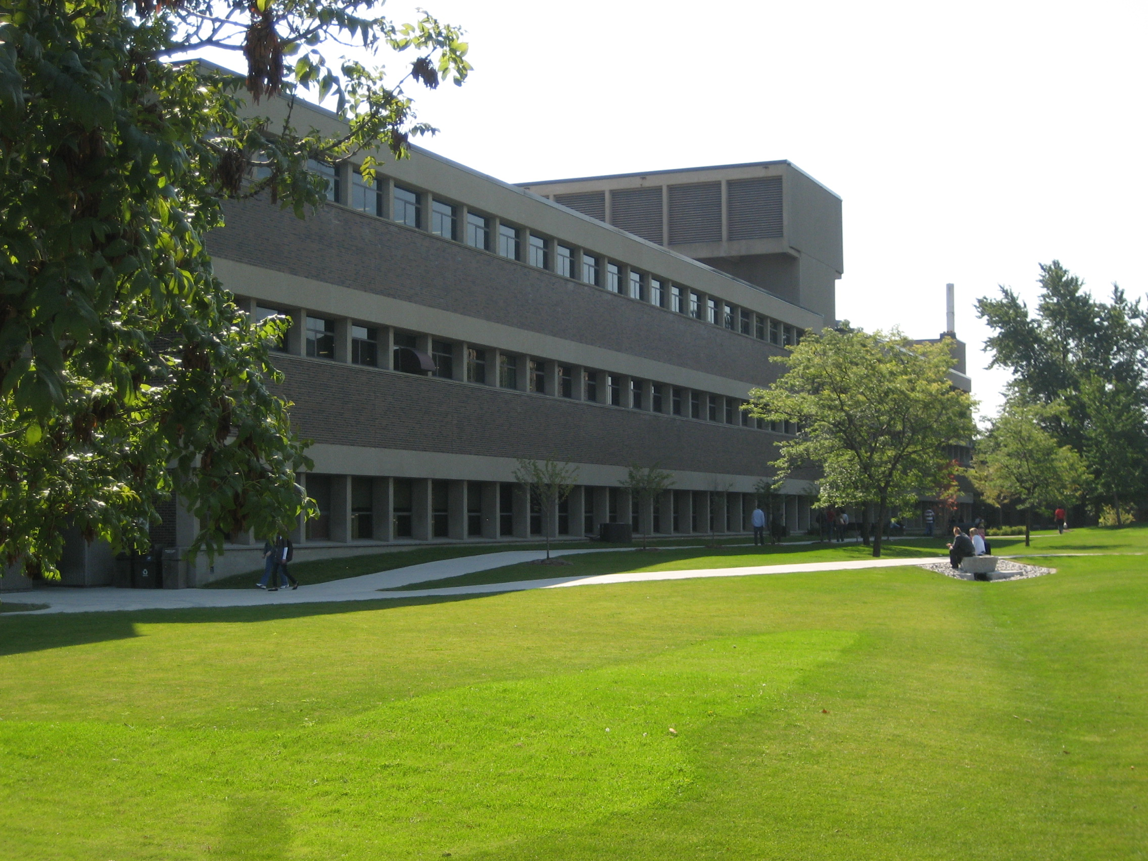 Mohawk College, Fennell Avenue, Hamilton, Canada